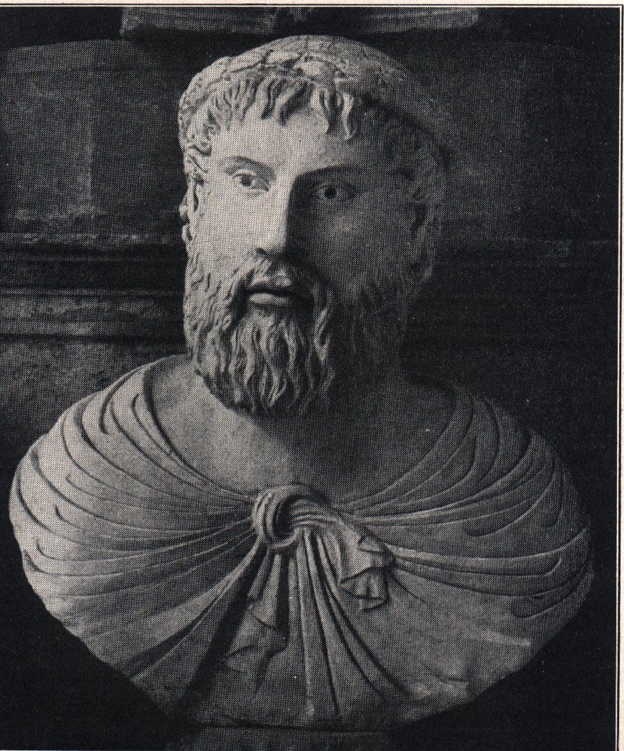 This is a scan of the historical document